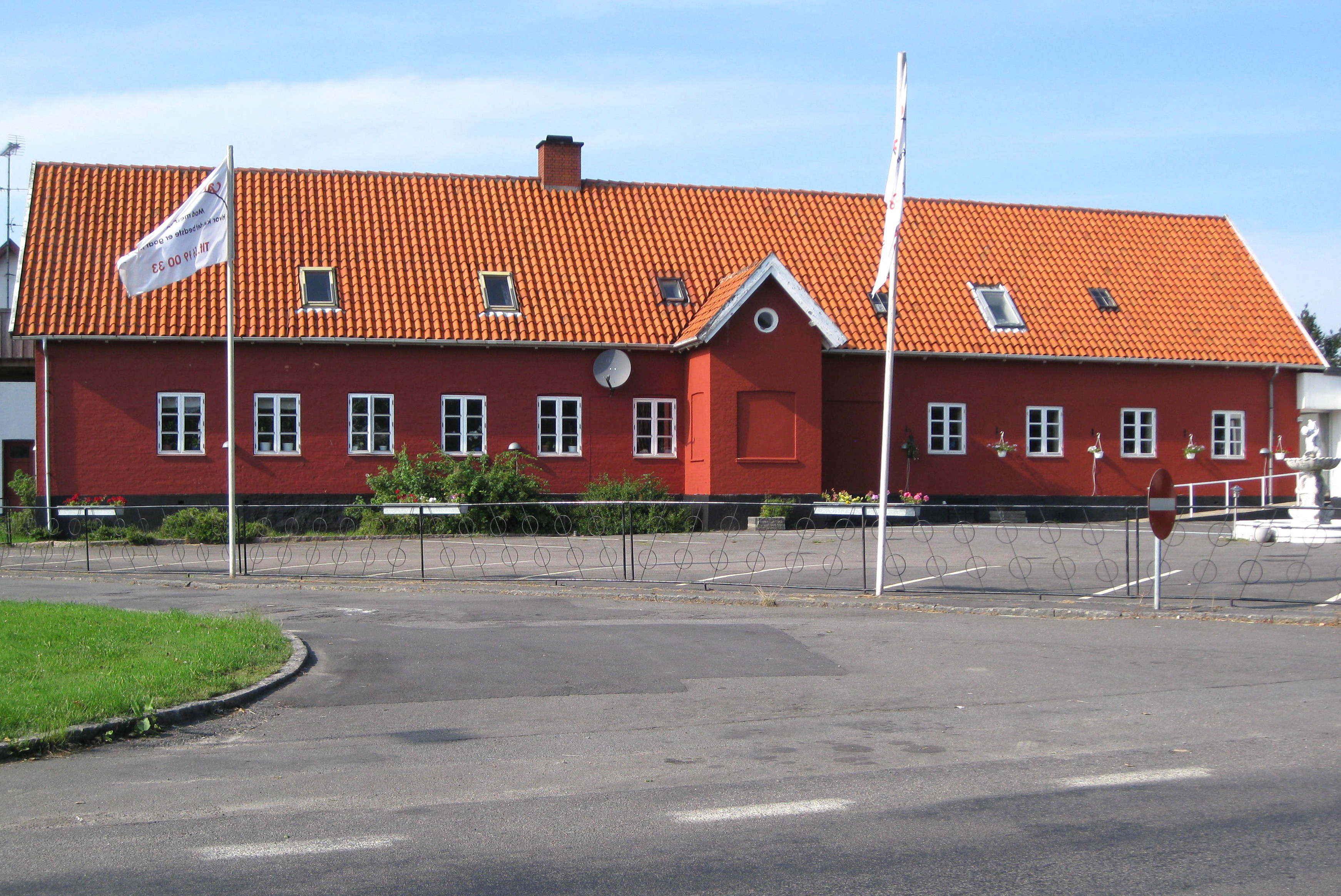 Restaurant in the village "Aarsballe". The village is located on the island Bornholm in east Denmark.